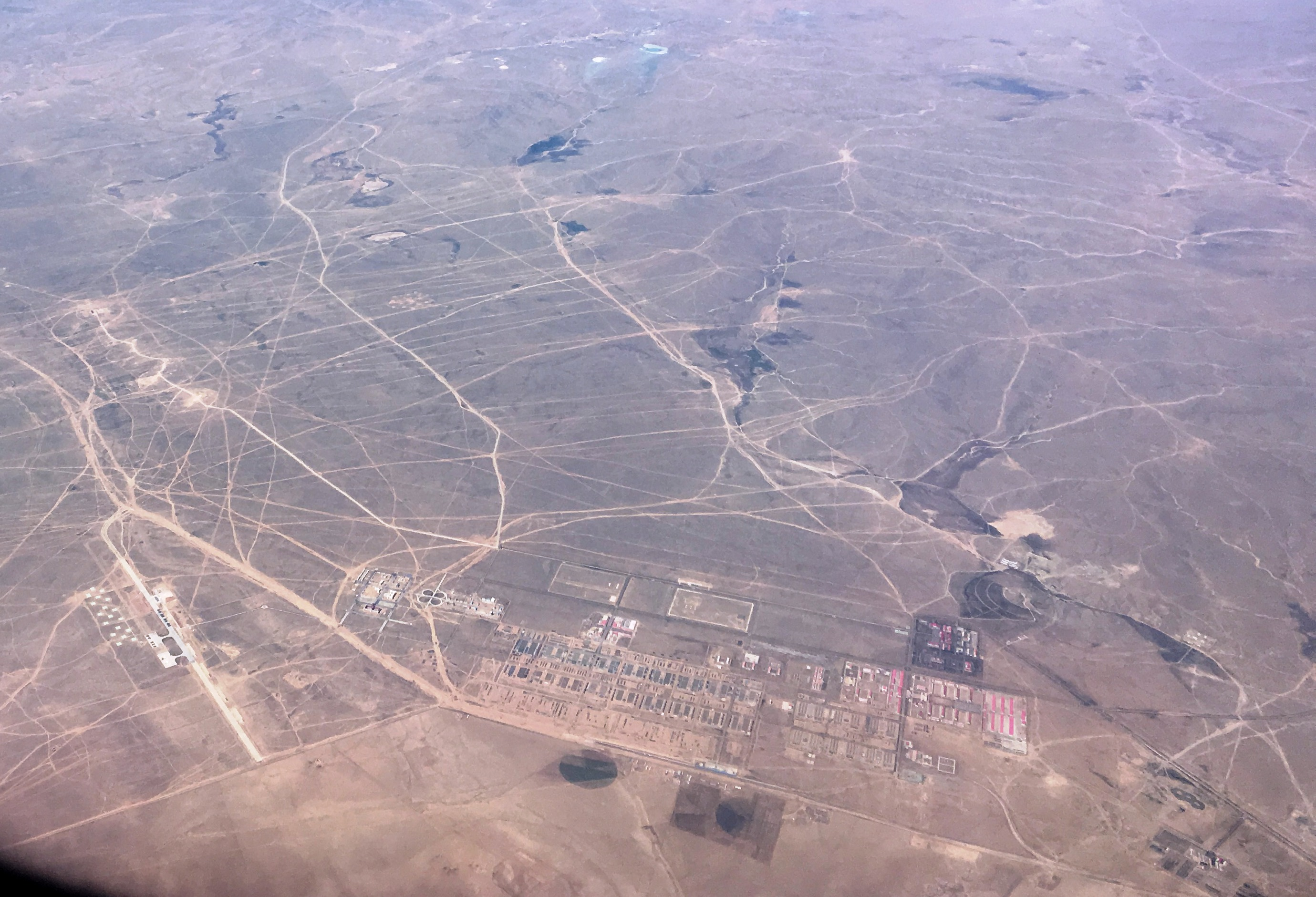 Aerial view from the east towards west, over the Chahan Aobao military base and military airport area, west of Zhurihezhen township, in Sonid Youqi county, Xilin Gol district, Inner Mongolia